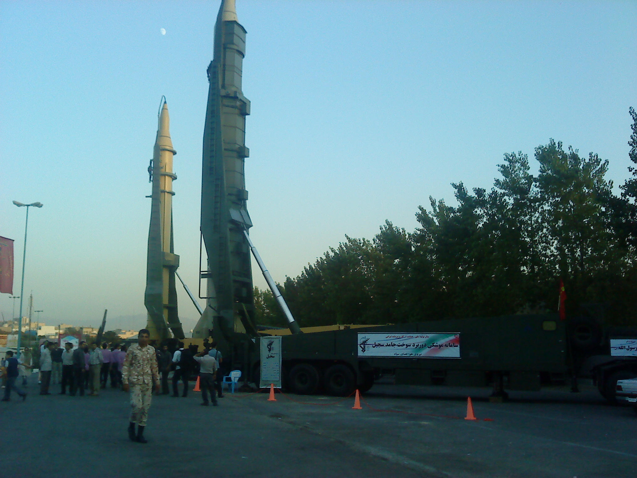 Sejil 2 and qiam at tehran exhibition 2012.jpg